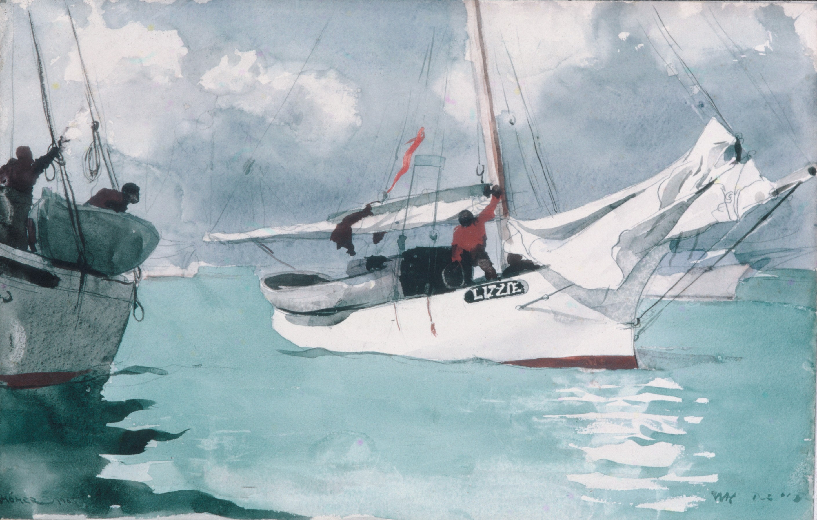 Watercolor; Drawings